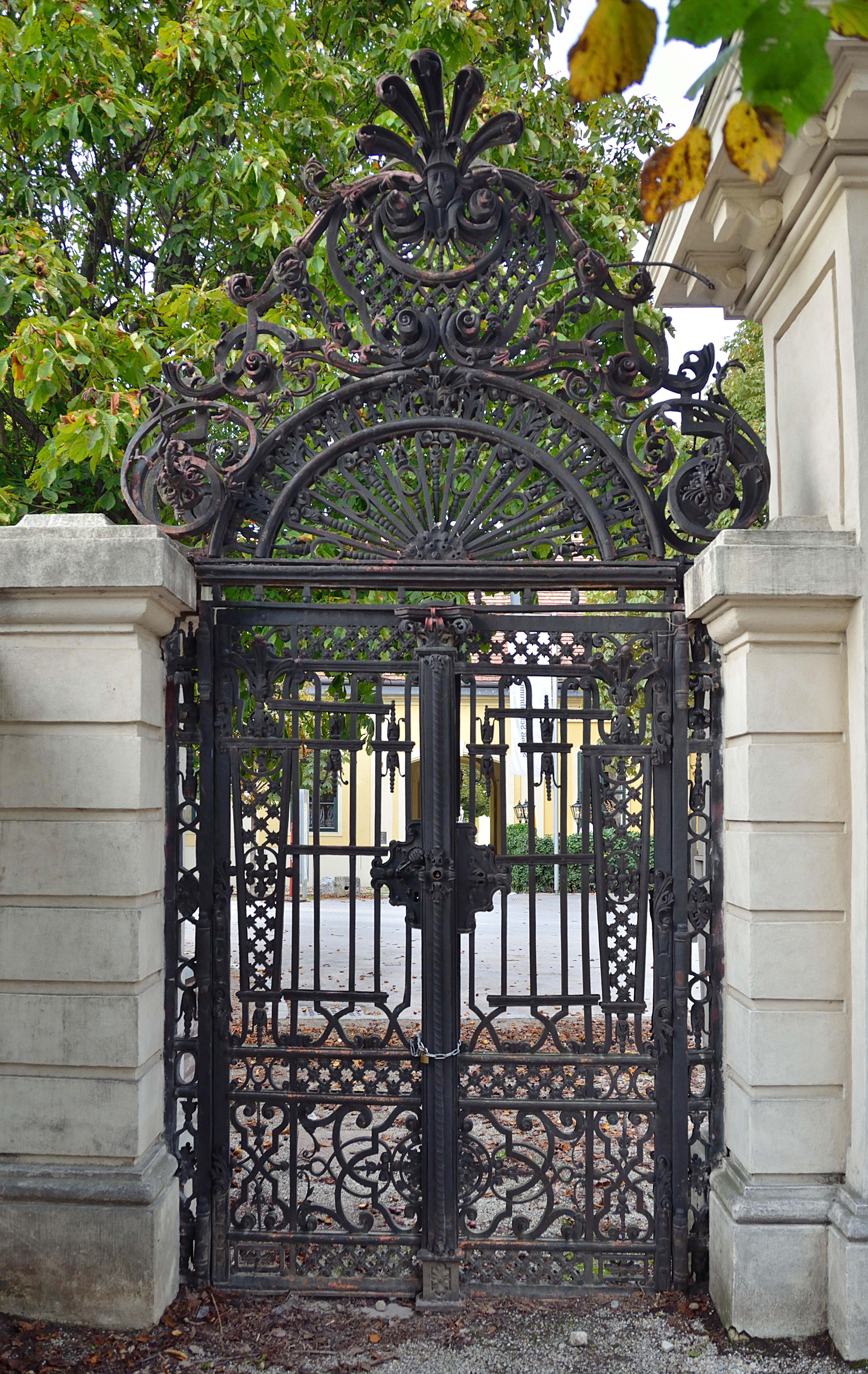 The gate is located near the Meidlinger Tor (or even part of it) and separates the access road to the palace from the park of Schönbrunn.